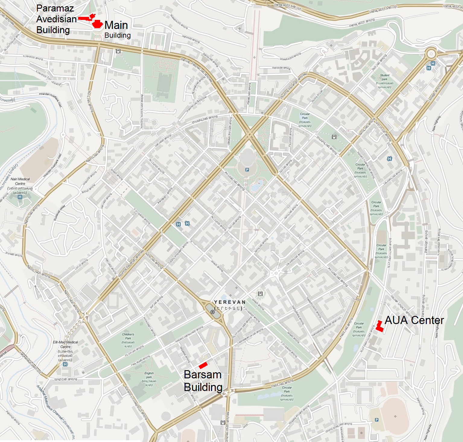 Location of American University of Armenia buildings in central Yerevan This map may be incomplete, and may contain errors. Don't rely solely on it for navigation.